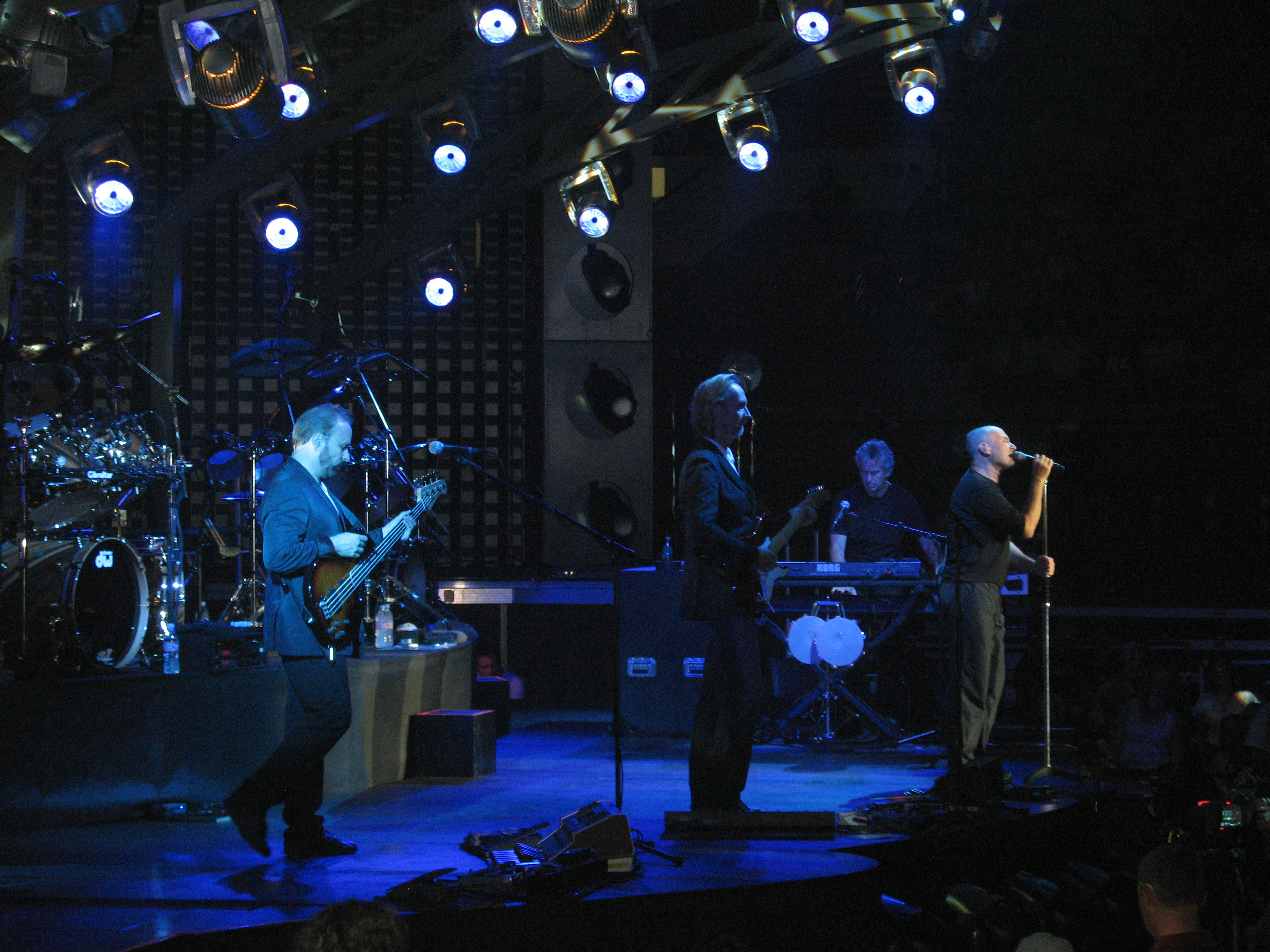 Genesis concert at the Mellon Arena, Pittsburgh, Pennsylvania, USA.